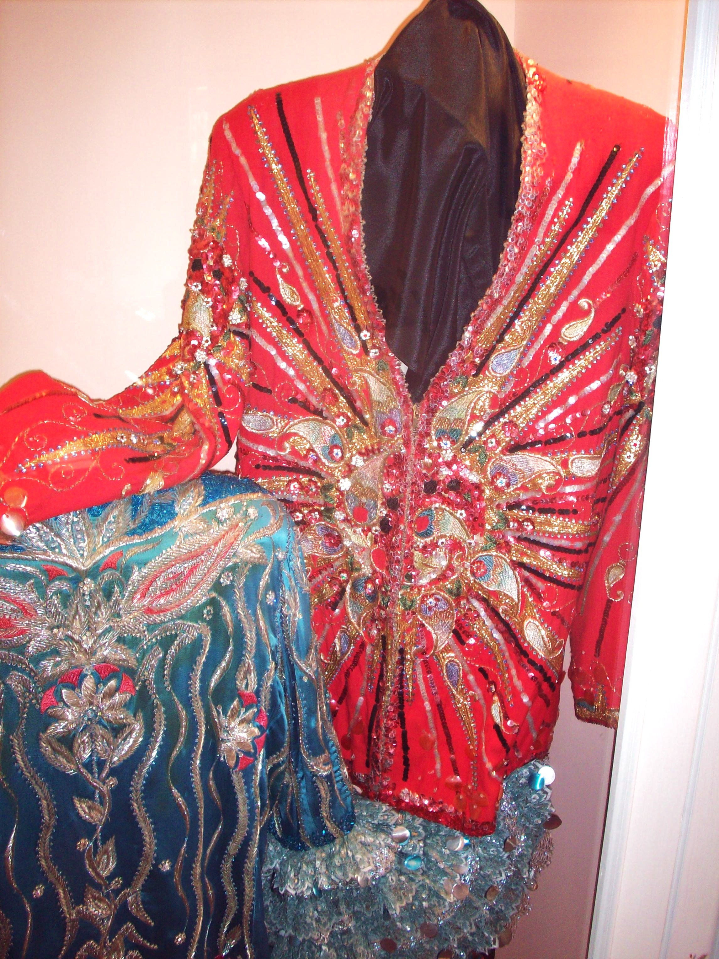 Costumes of Turkish singer Zeki Müren shown at his museum in Bodrum, Turkey